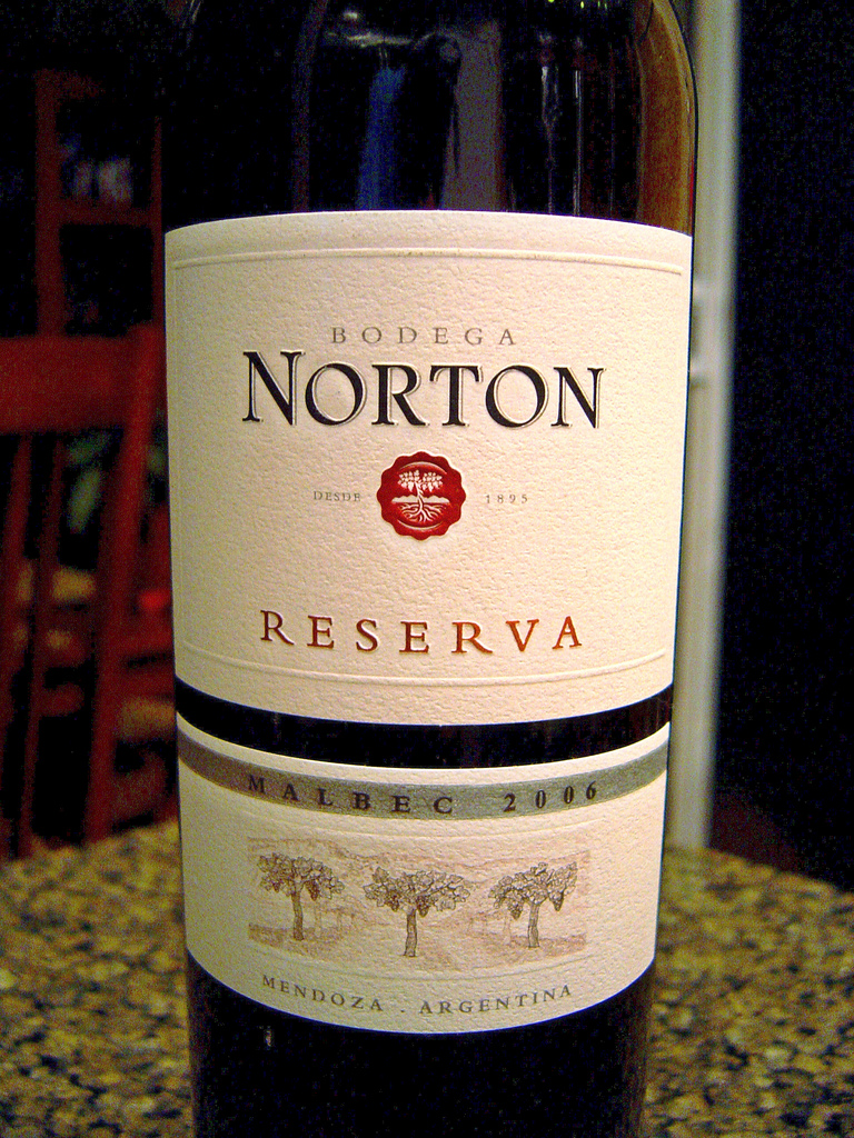 See my review of this amazing wine @ Cuvee Corner Wine Blog